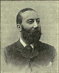 A picture of Arthur G. Guillemard, who played for England in the first international rugby match in 1871 and later was president of the Rugby Football Union from 1878 to 1882.